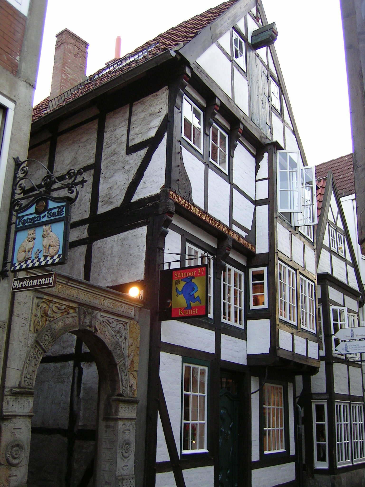 Houses from the 15th and 16th centuries along the narrow alleys in Bremen’s oldest surviving quarter